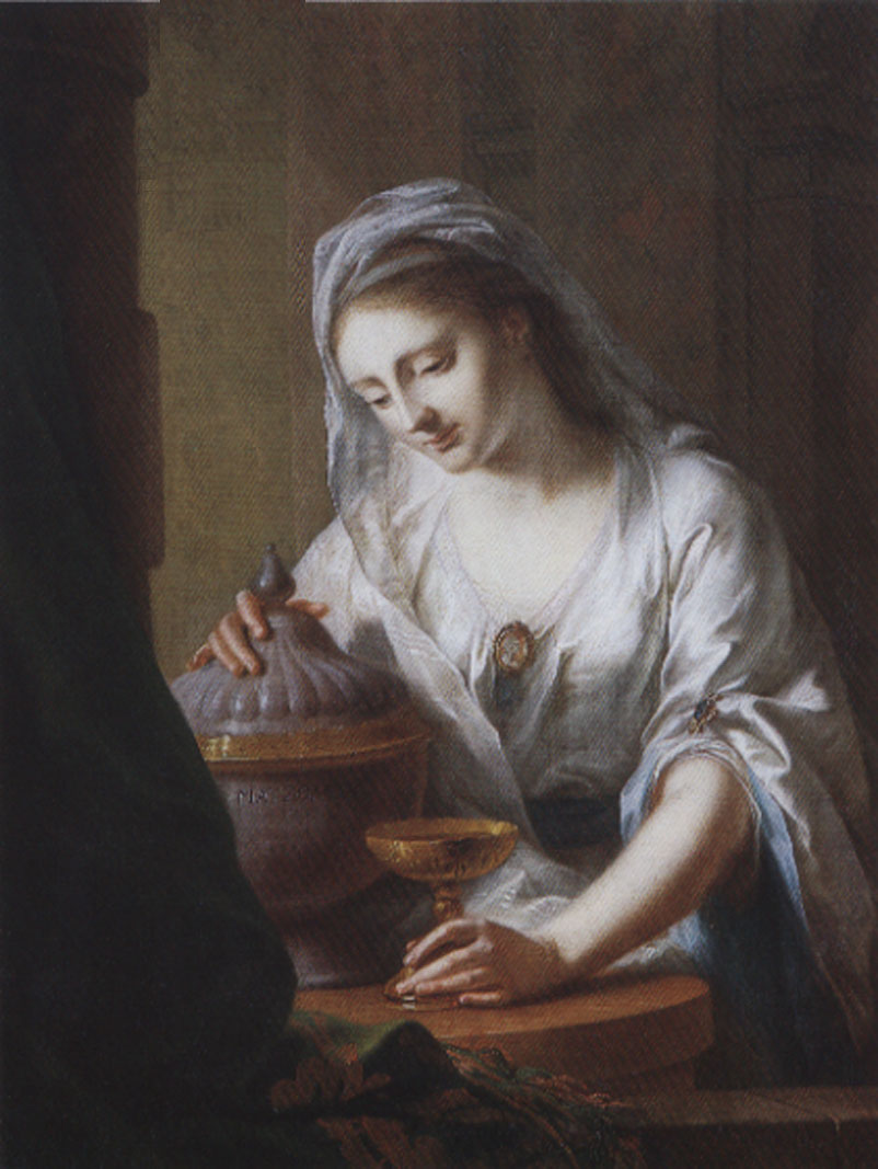 For this well known allegory, the eighteen years old Countess Augusta Reuss-Ebersdorf and Lobenstein (1757–1831) stood model in 1775. She was known as the most beautiful woman in the area. The wife of Franz Friedrich Duke of Sachsen-Coburg-Saalfeld, she is an ancestress to numerous Royal families. Her son was King Leopold I. of Belgium, her granddaughter was Queen Victoria of England.